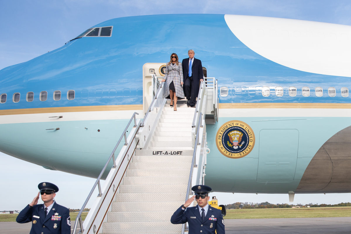 President Donald J. Trump and First Lady Melania Trump disembark Air Force One Tuesday, Oct. 30, 2018, at Pittsburgh International Airport. (Official White House Photo/ Shealah Craighead (1976–) DescriptionAmerican photographer and photojournalistDate of birth 4 May 1976 Location of birth Connecticut Work location Washington, D.C.Authority control : Q28536820 VIAF: 14152820076400680290 LCCN: no2018071926 WorldCat creator QS:P170,Q28536820 )